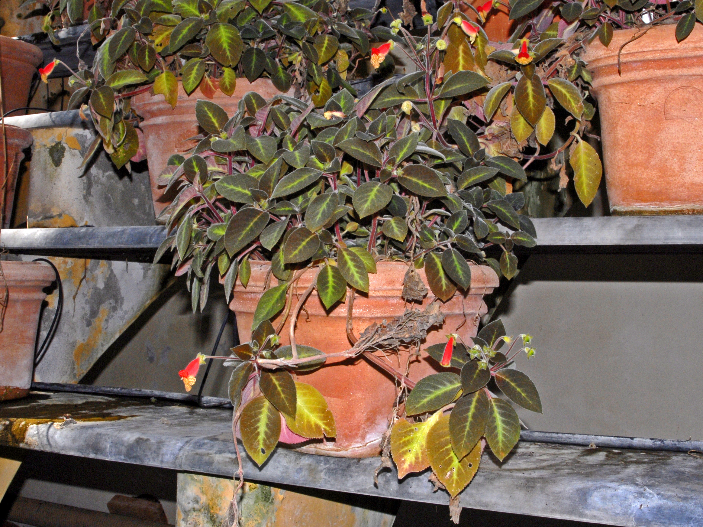 Plant of Kohleria amabilis var. bogotensis at Villa Durazzo-Pallavicini, Genova Pegli